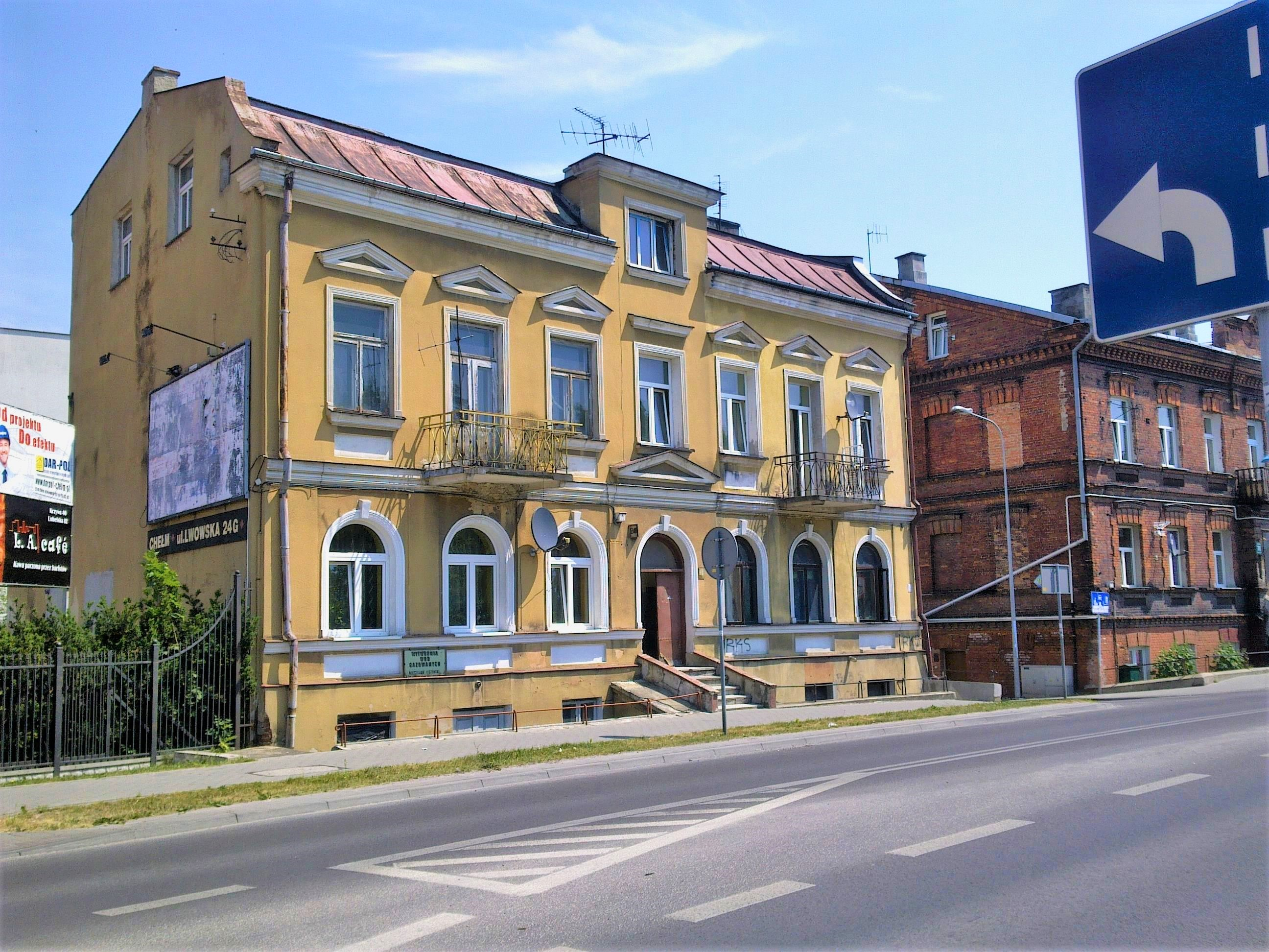 House at 80 Lubelska Street, Chełm, Poland.